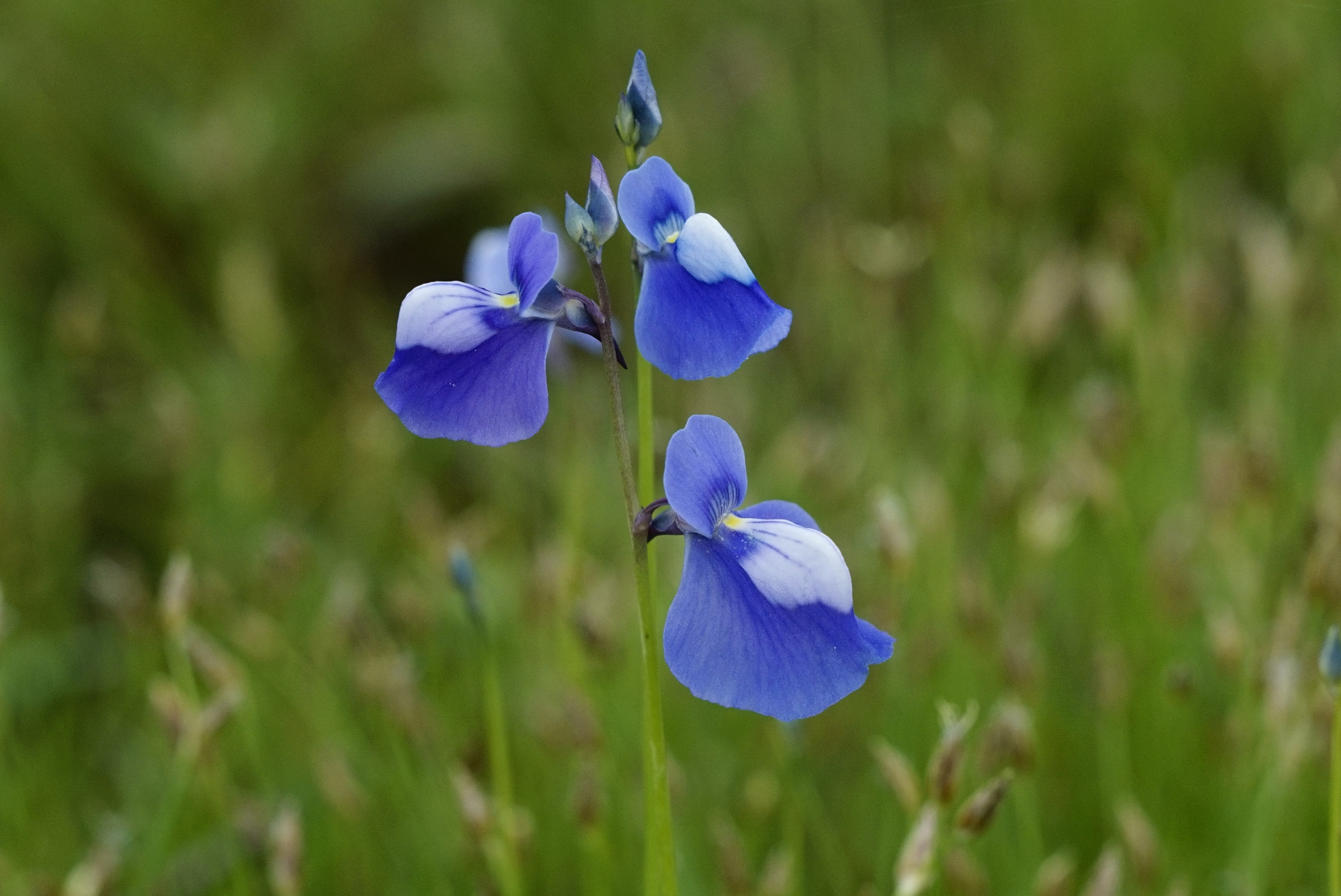 Utricularia reticulata is a annual carnivorous subaquatic plant belongs to the genus Utricularia. Taken at Madayipara, Kerala.